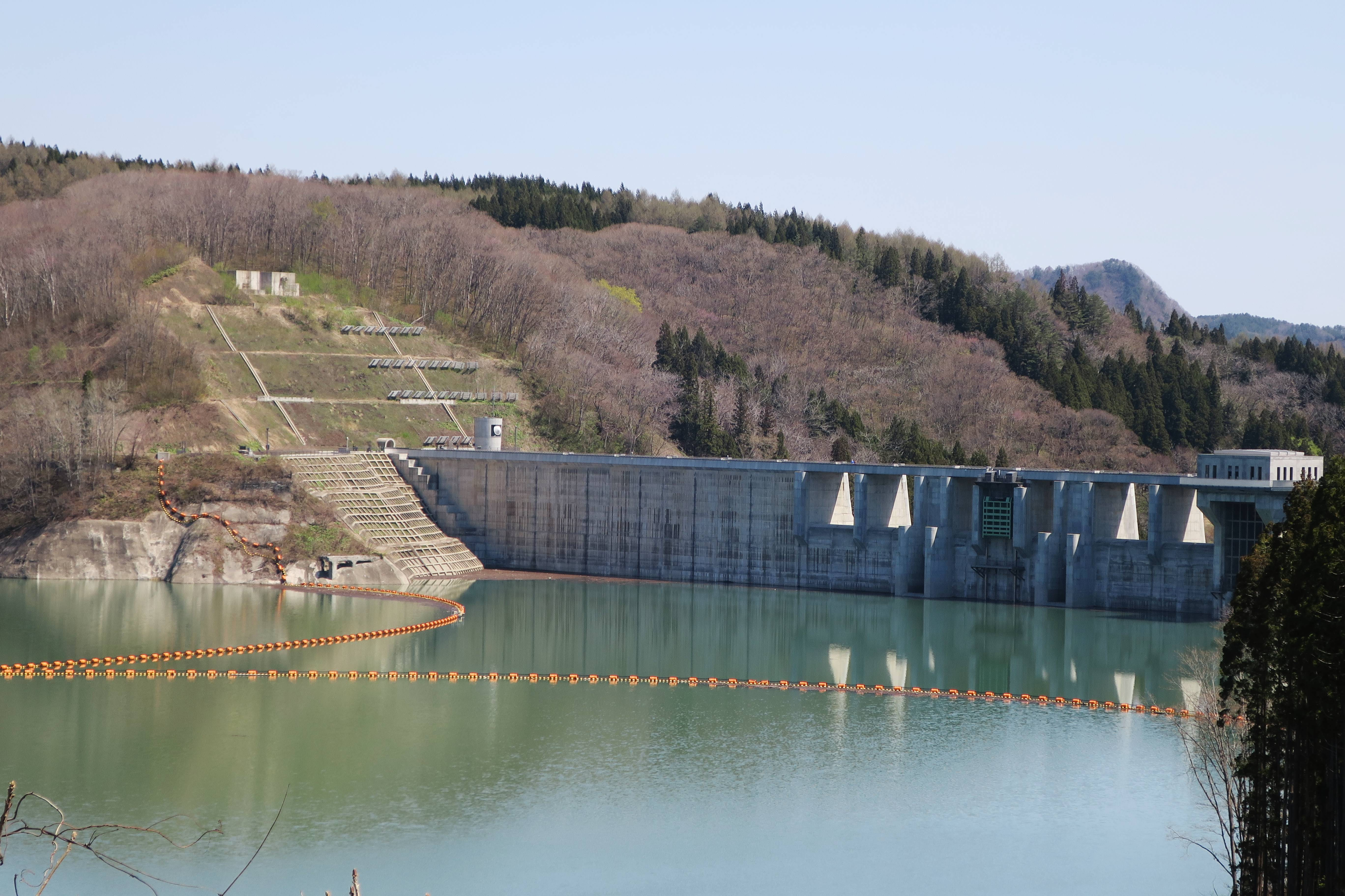 Tsugaru Dam (Nishimeya, Aomori).